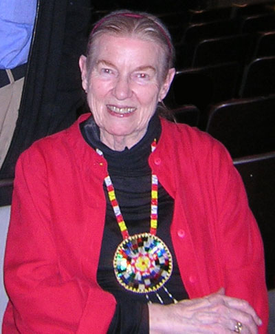 Picture of Jean Ritchie after a performance at the Carnegie Lecture Hall in Pittsburgh, Pennsylvania, on April 26, 2008.